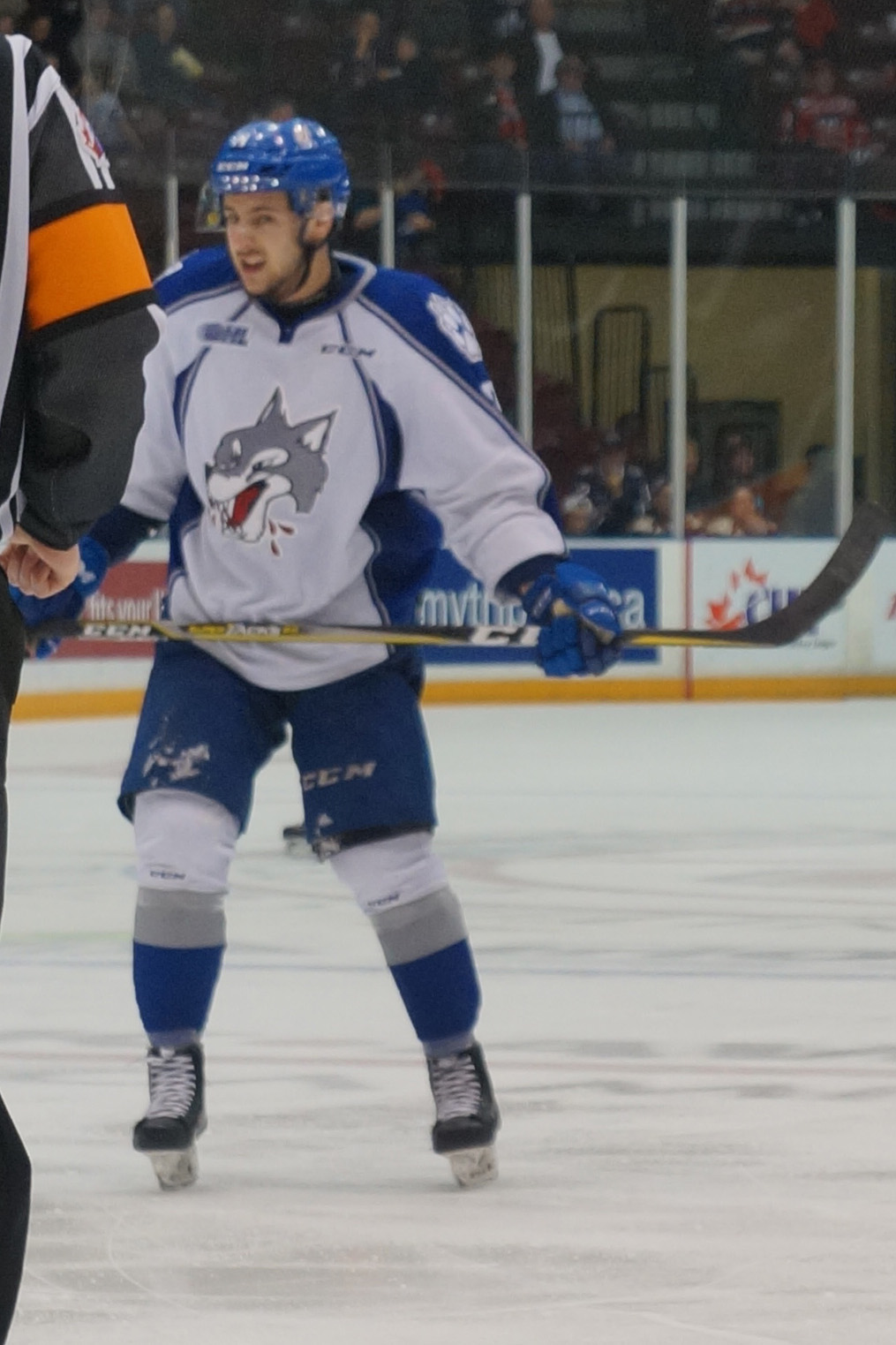 David Levin playing for the Sudbury Wolves against the Oshawa Generals, March 24, 2017.